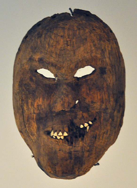 British Museum referenceAm,+.2080Detailed descriptionEskimo-Aleut (Western), Alaska (?). Mask made of wood and teeth. Collected by Barnard Davis, acquired in 1884.LocationRoom 24